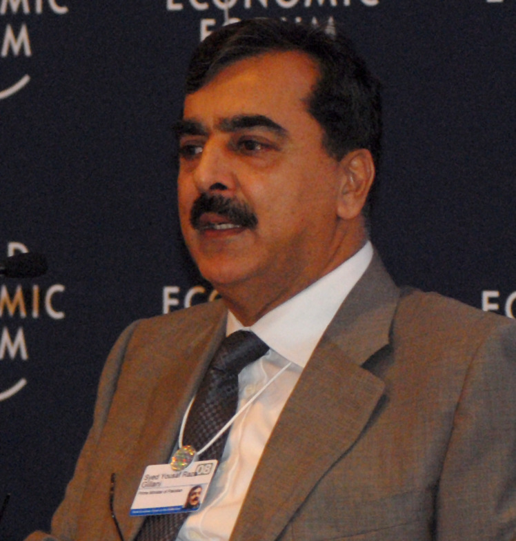 SHARM EL SHEIKH/EGYPT, 19MAY08 - Syed Yousaf Raza Gillani, Prime Minister of Pakistan, captured during the session "Eye on Pakistan" at the World Economic Forum on the Middle East 2008 held in Sharm El Sheikh, Egypt.